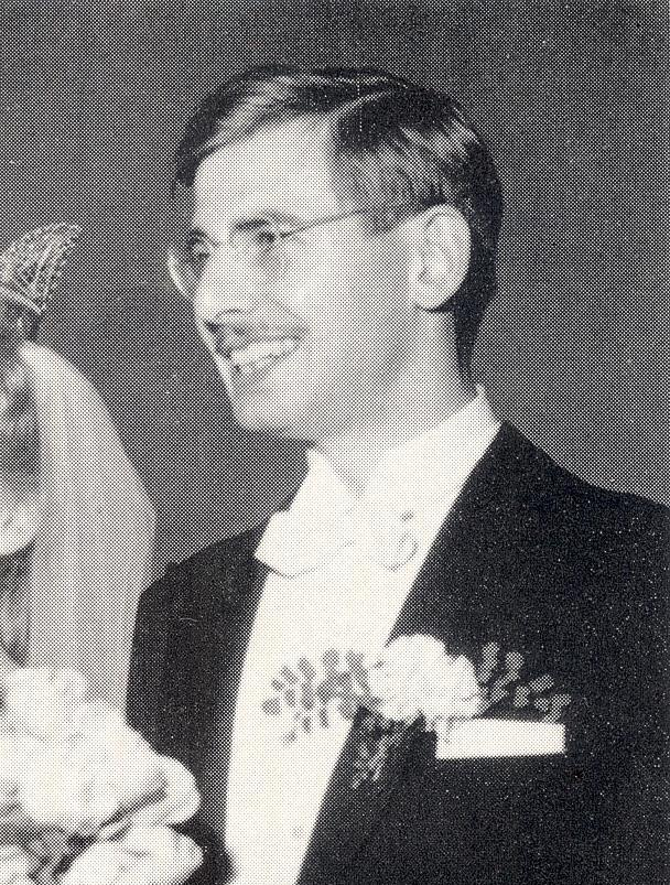 Thomas HeinemannPlace: Falun, Sweden